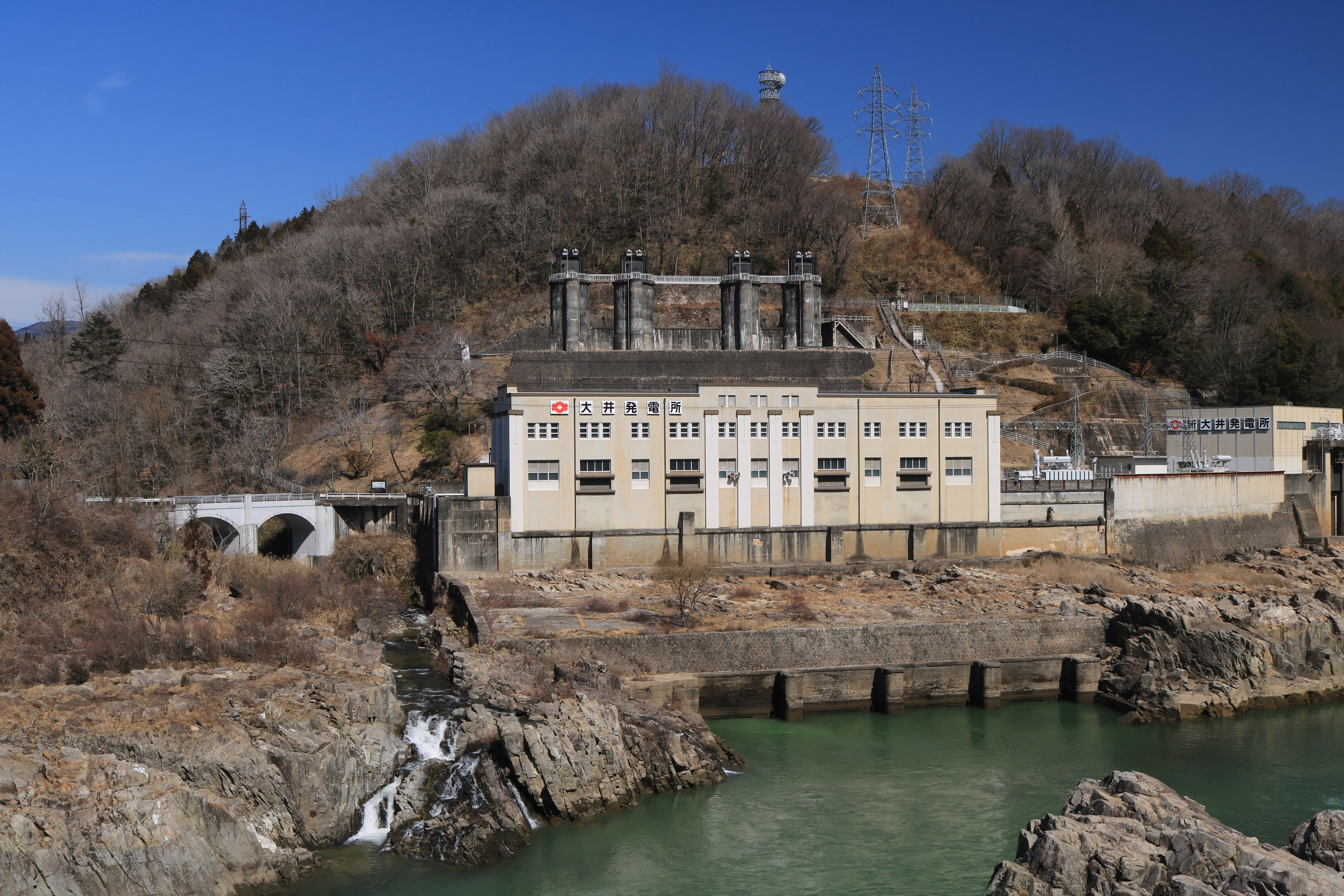 Oi Hydroelectric Power Station seen from Shinonome Bridge over Kiso River in Ena, Gifu prefecture, Japan.